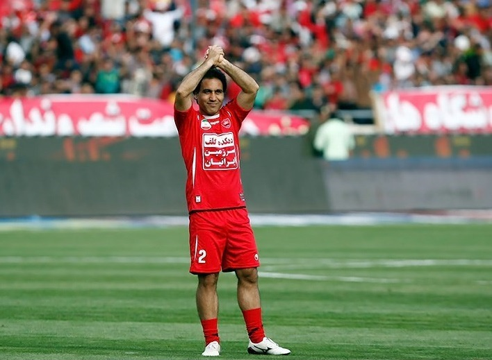 Mehdi Mahdavikia, captain of Persepolis F.C. after Hazfi Cup final against Sepahan